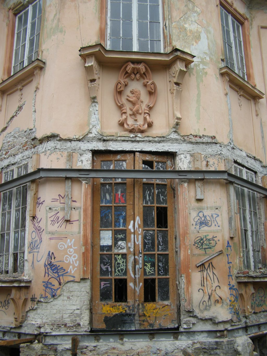 Besyadetski Palace in Lviv, Ukraine